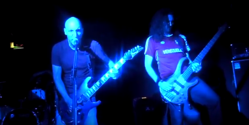 Cultura Tres ive in UNDERWORLD London